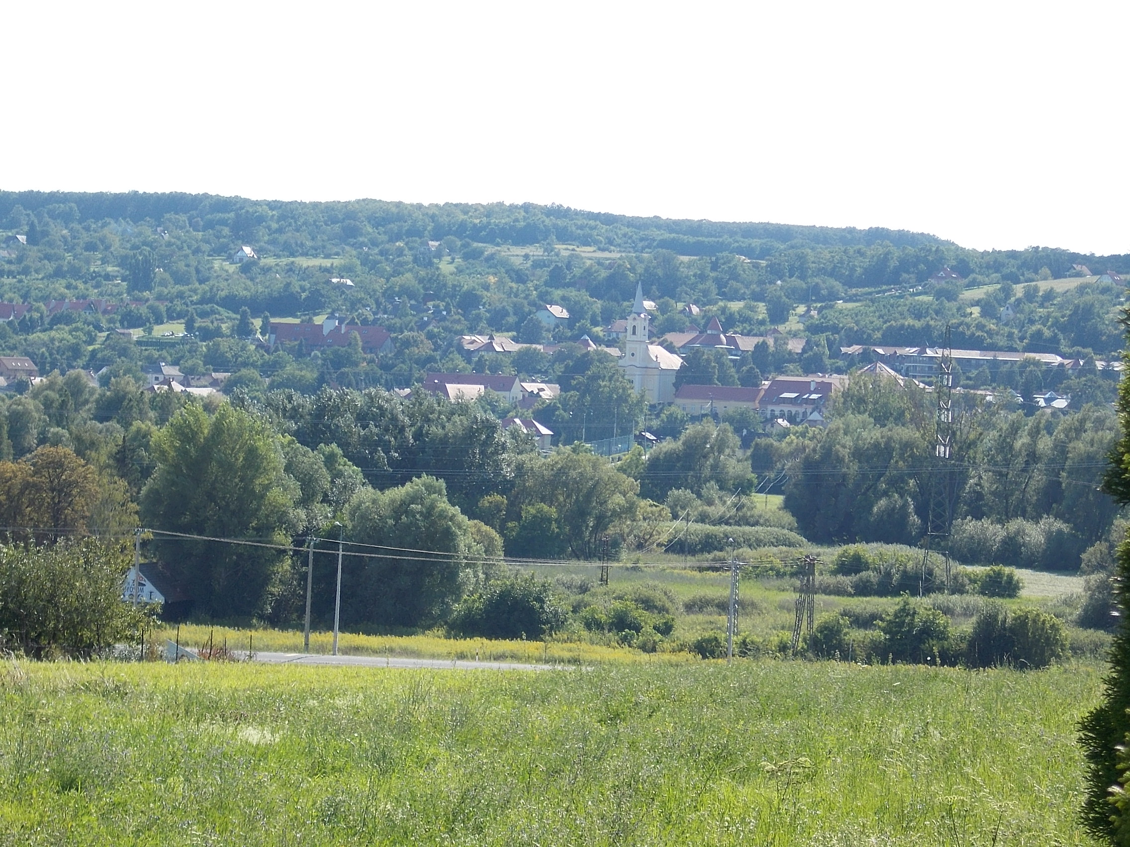 View to Alsópáhok Exaltation of the Holy Cross church from Vörösmarty Street, Hévíz, Zala County, Hungary.